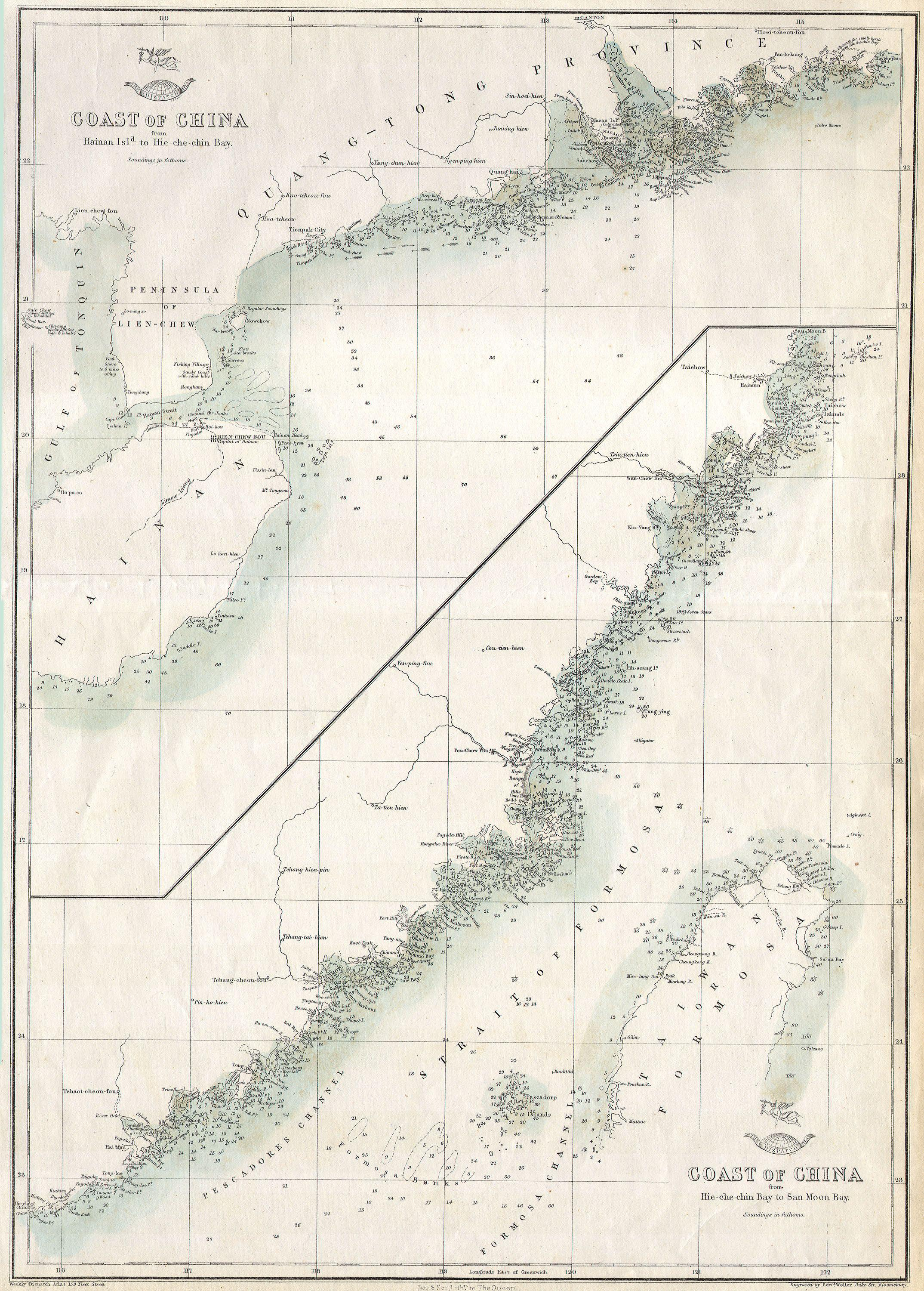 This hand colored map is a lithographic transfer, dating to 1863, by London cartographer Edward Weller. Depicts the coast of China, including the Strait of Formosa and most of Taiwan or Formosa Island. Depth soundings indicated in fathoms along major shipping routes and throughout the map. Originally part of the Weekly Dispatch Atlas. Publisher: Edward Weller (18??–1884) was a cartographer and engraver based in London. His best known work appears in Cassell’s Weekly Dispatch Atlas, published in monthly segments for subscribers of the “Weekly Dispatch” newspaper. This collection of maps eventually grew to include much of the known world. Published in various editions from 1855 through the early 1880s.